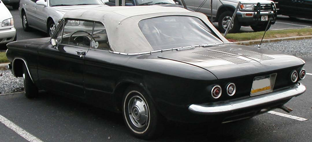 Chevrolet Corvair convertible photographed in USA.